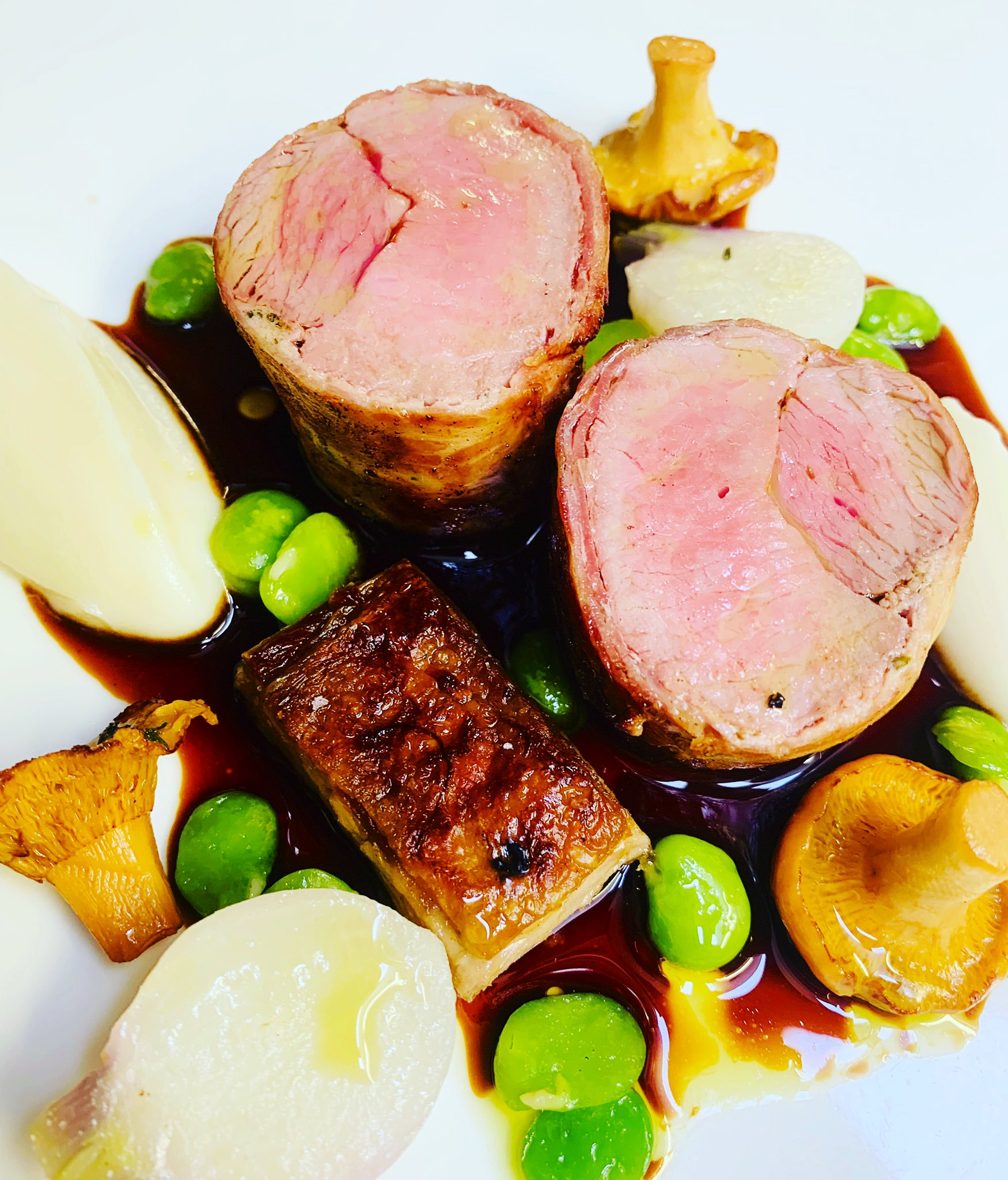 Modern Irish Lamb Dish